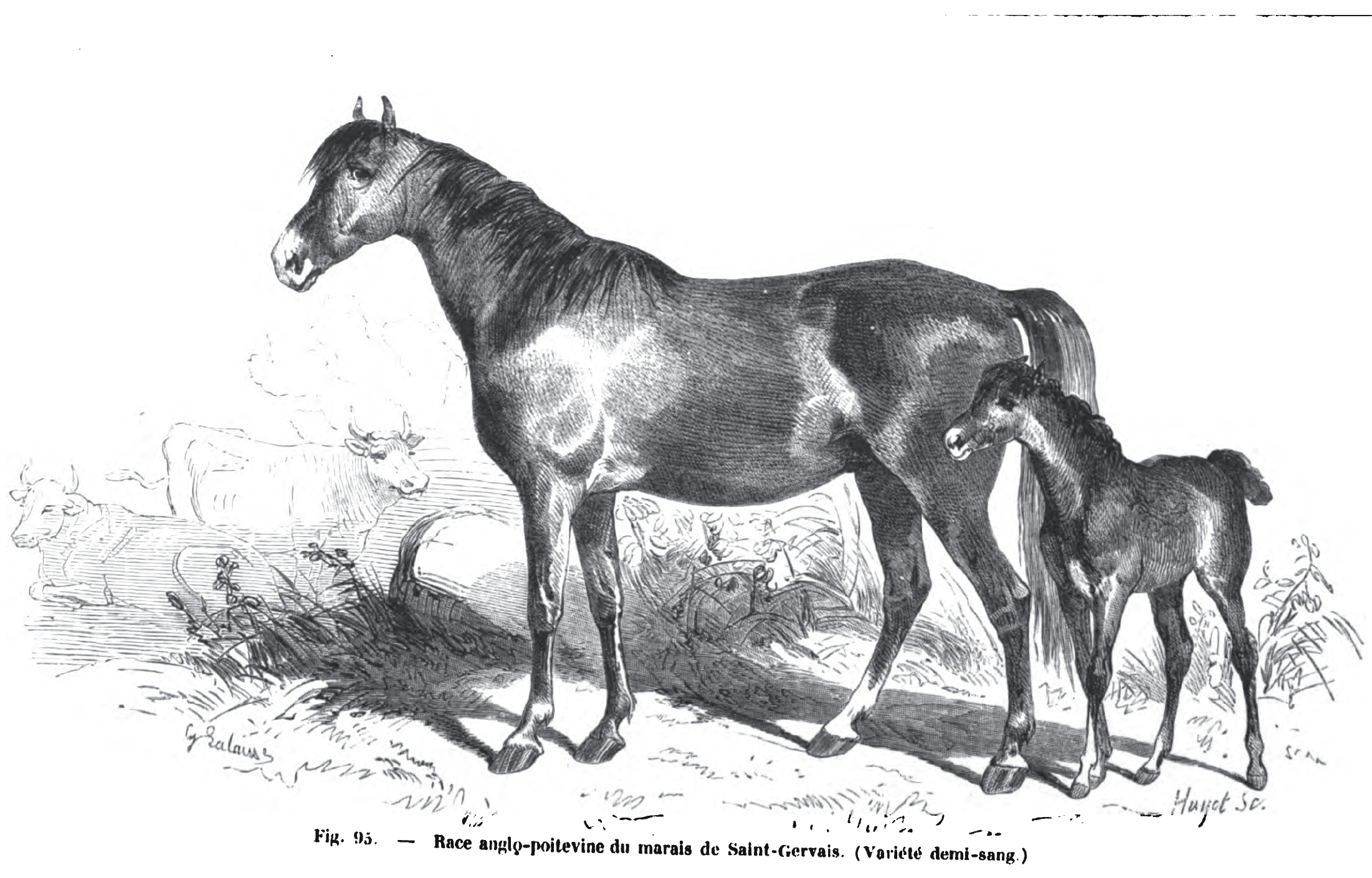 Anglo-Poitevin mare with foal